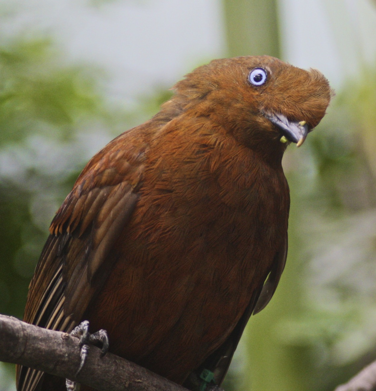 A female Andean Cock-of-the-rock at San Diego Zoo, USA.